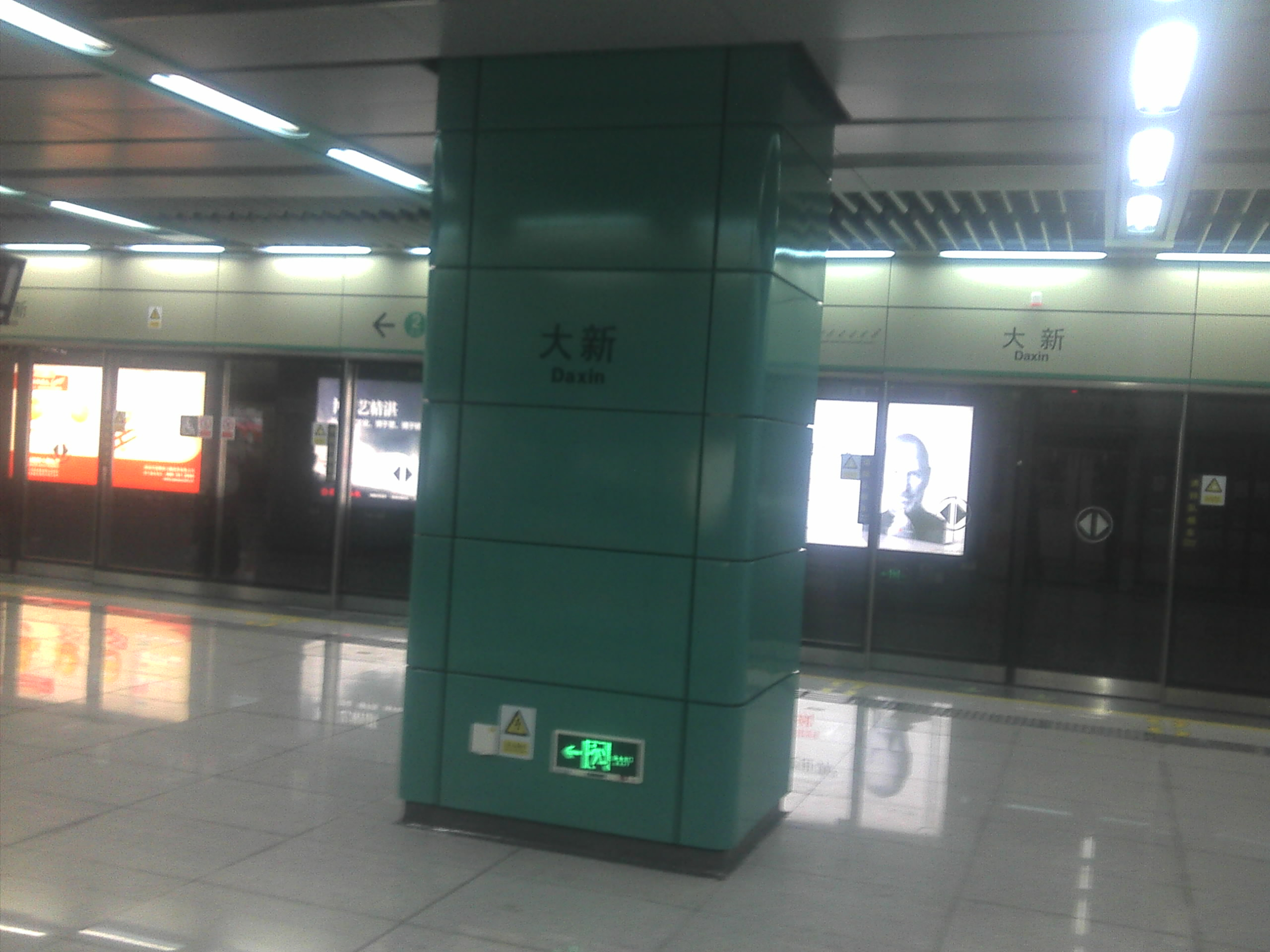 This photo was taken as Nov 19, 2011.